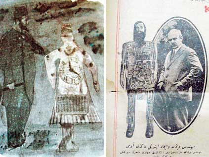 THE FIRST OTTOMAN ROBOT